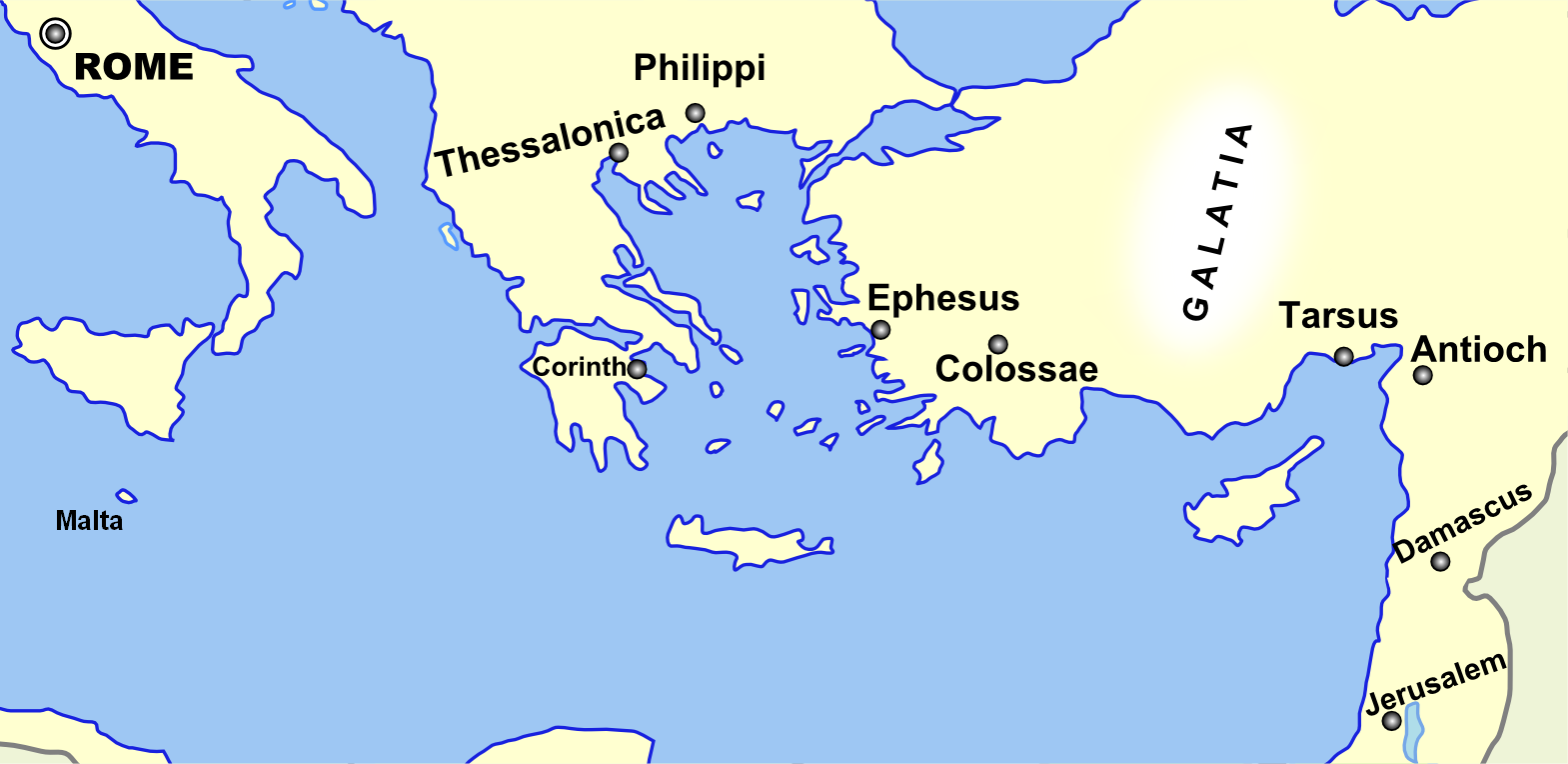 Geographic map of Europe during Paul of Tarsus' times, as produced by User:Alecmconroy to illustrate a relevant article and now to be used on its translation.